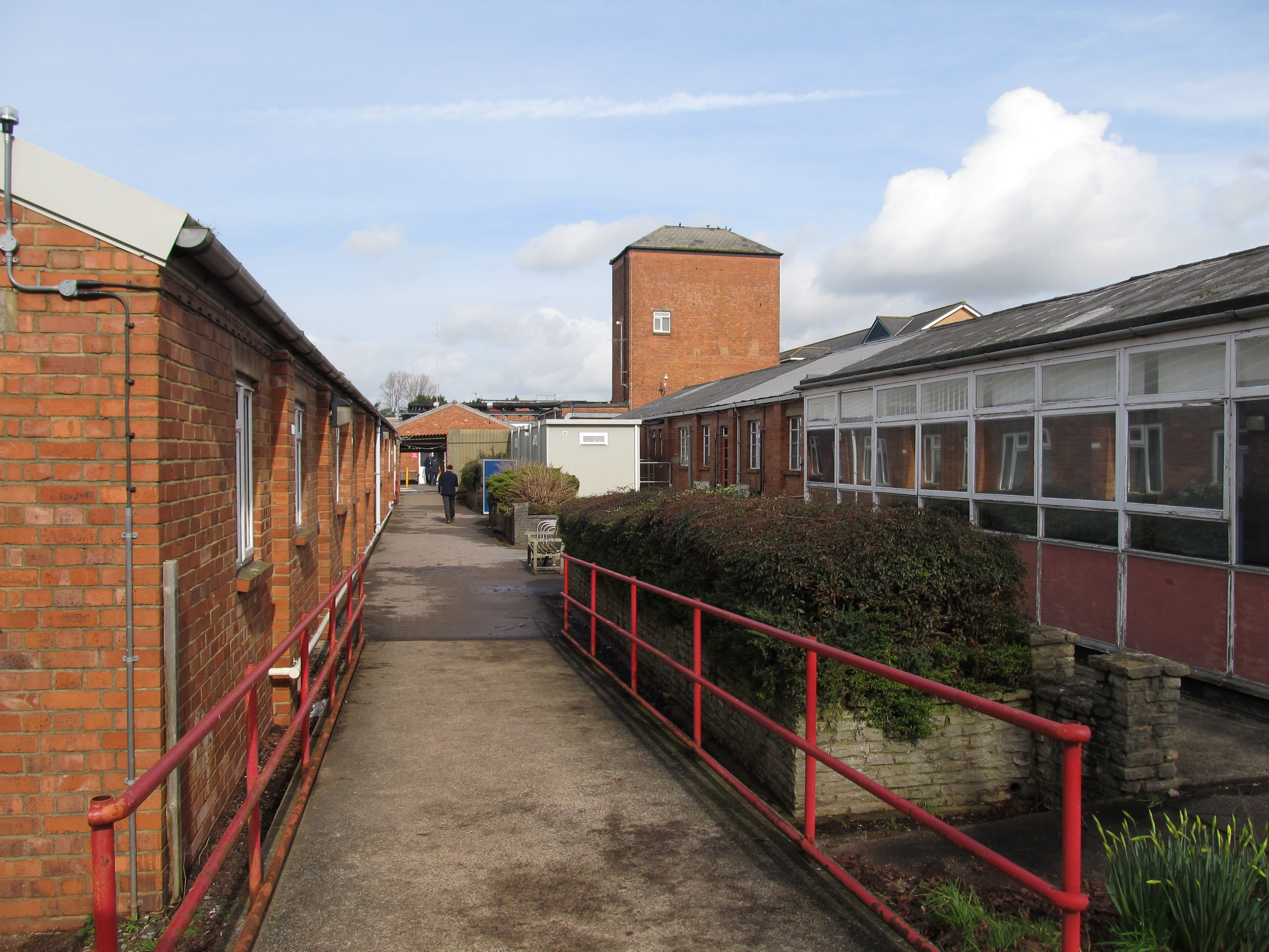 Between wards 20 and 21, Frenchay Hospital, Bristol. The tall building behind is I think the former boiler house.